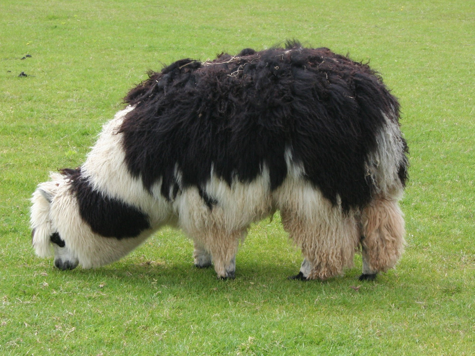 An unshorn Alpaca grazing.